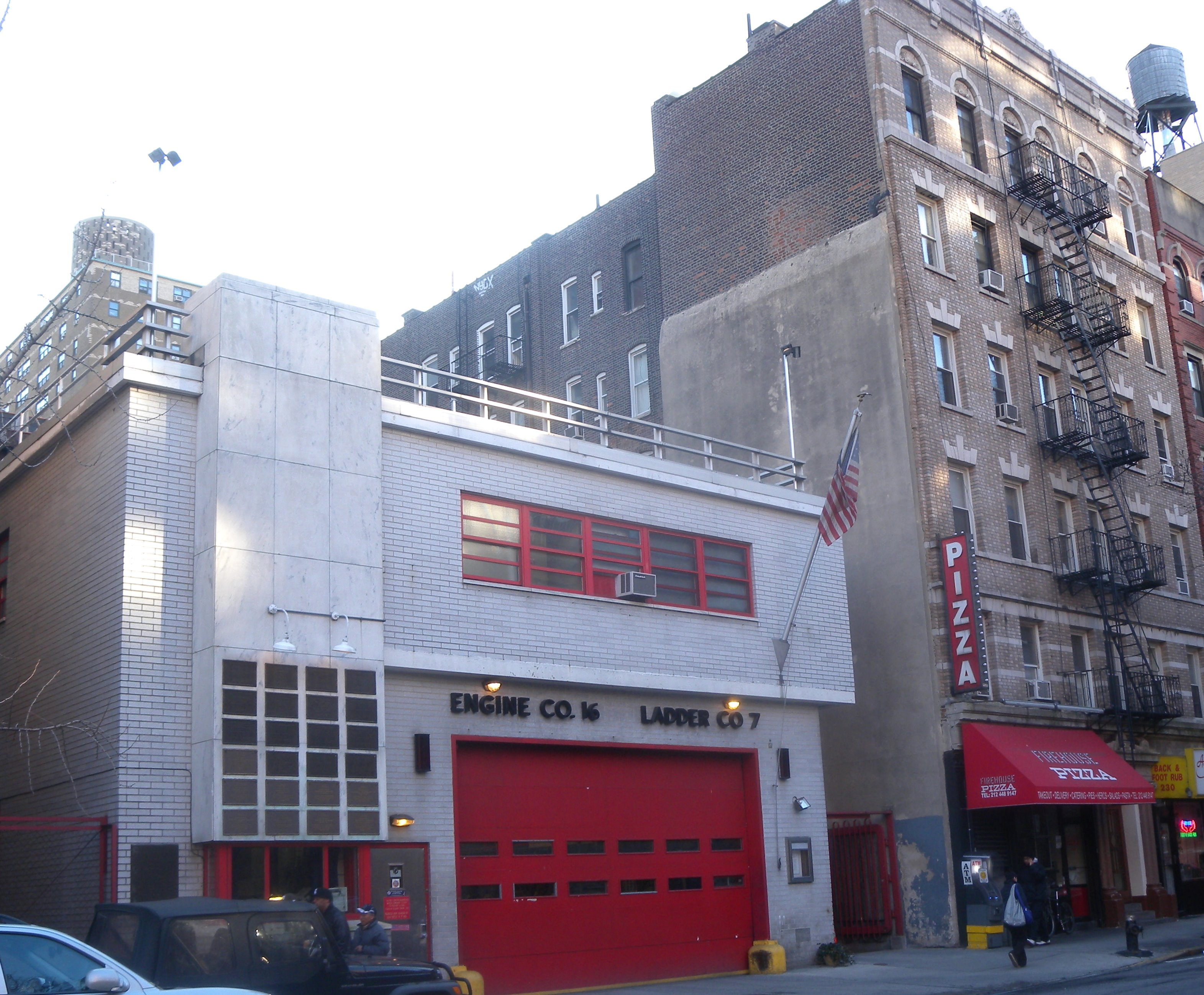 Looking west across 29th St at firehouse on a cloudy day.